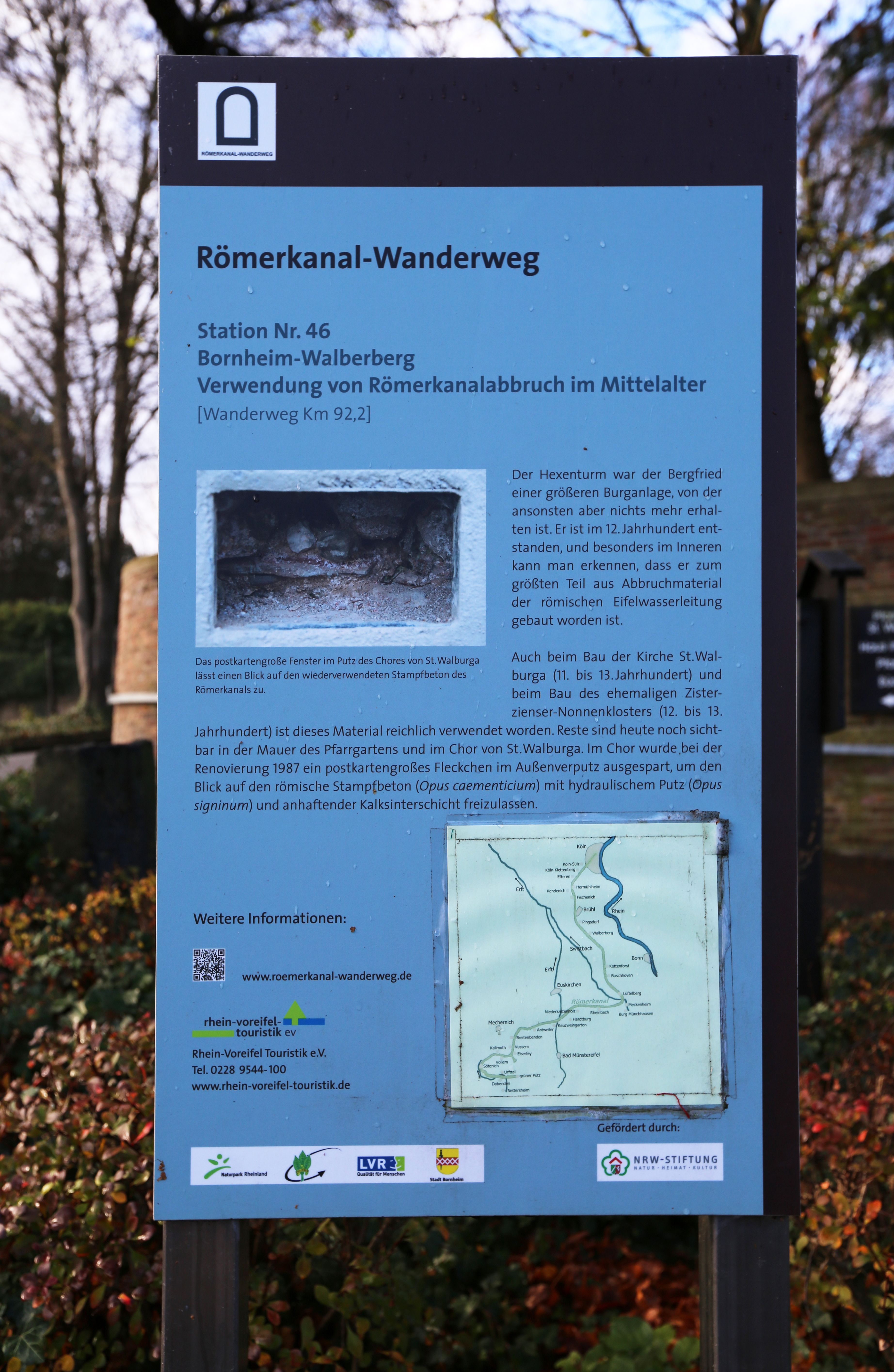 Part of the roman cement affusion of the first church in Walberberg, Germany.